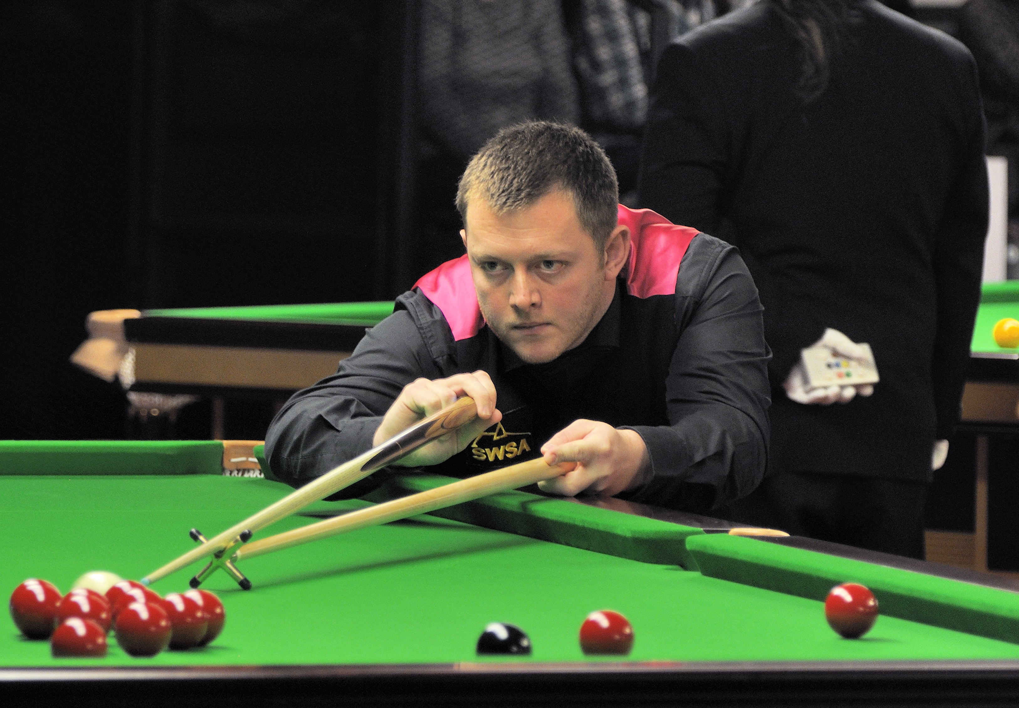 Picture taken in Berlin during the Snooker German Masters in 2014. Mark Allen.